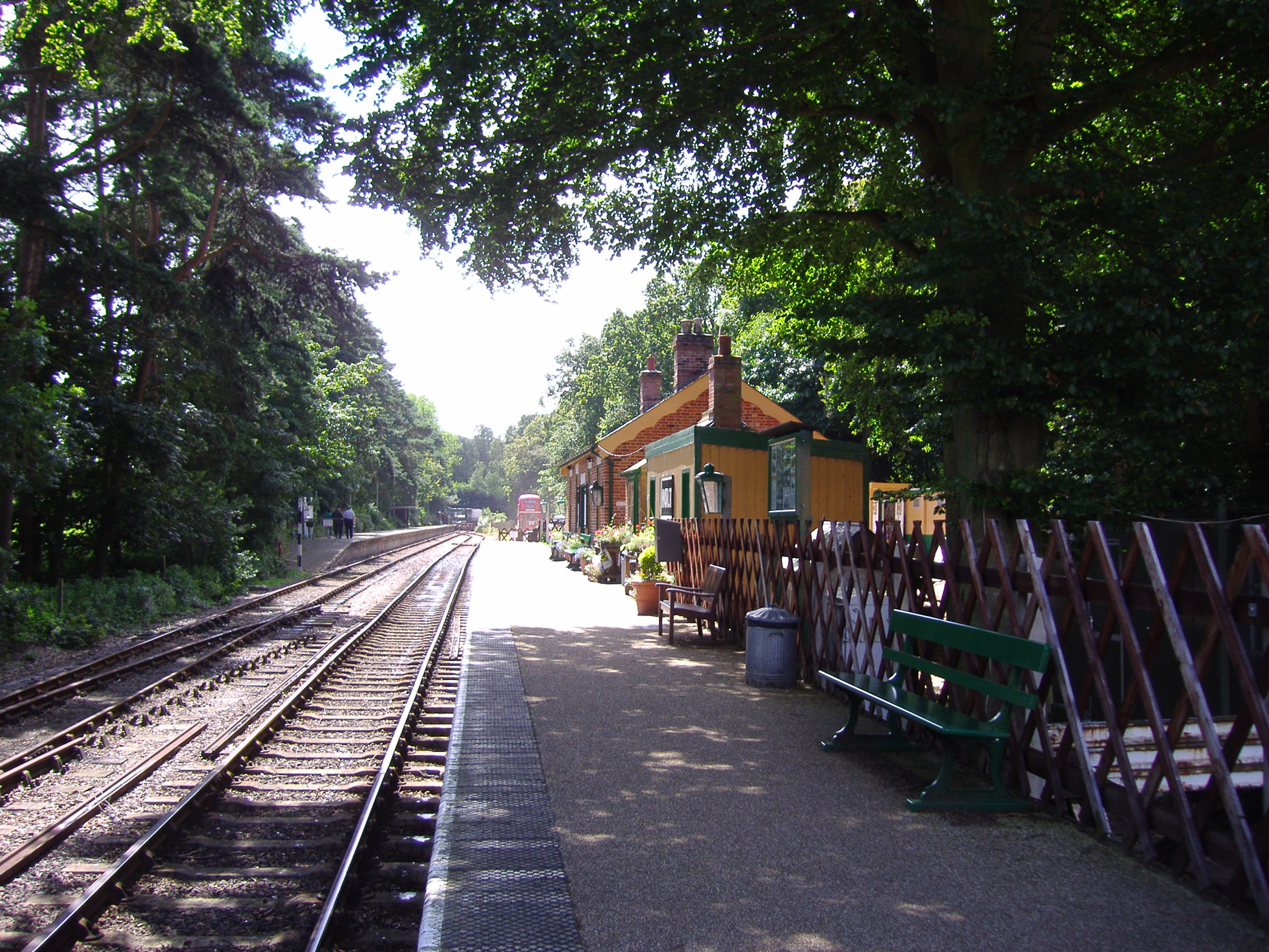 A Digital Photograph of Holt Railway station on the North Norfolk Railway Taken in August 2007 by stavros1